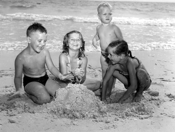 Local call number: c018132 Personal Author: Barron, Charles Title: [Children playing in the sand at Lido Beach: Sarasota, Florida] Publication info: 1953. Physical descrip: 1 photoprint; b&w; 4 x 5 in. Series Title: (Department of Commerce Collection) General Note: From left to right: Randall Courson, Beverly Ann Scott, Michael Courson, and Marion Scott. Repository: 500 S. Bronough St., Tallahassee, FL 32399-0250 USA. Contact: 850.245.6700. Persistent URL